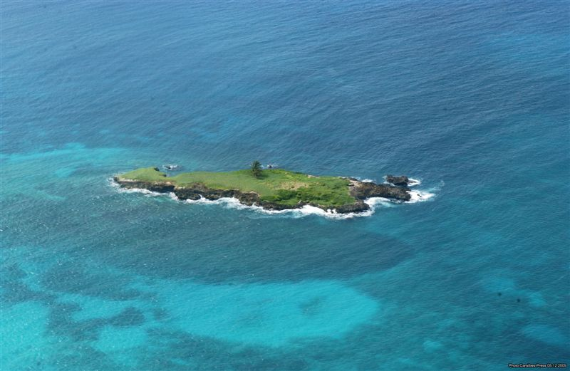 This is a picture from Saint-Louis de Marie-Galante